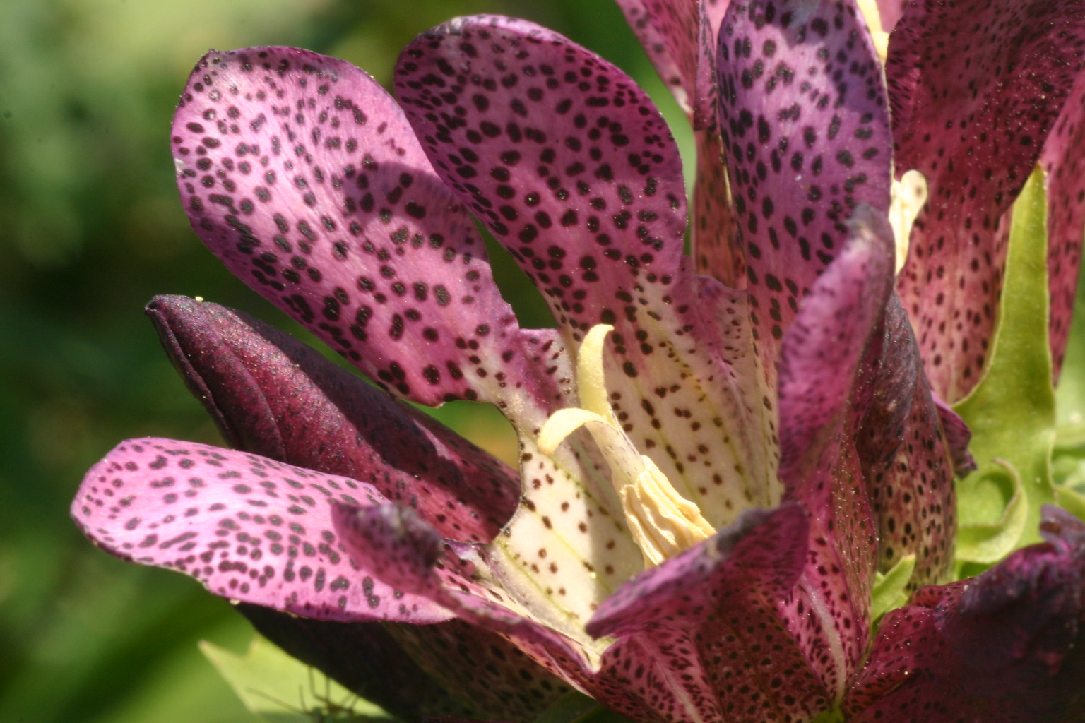 Gentiana pannonica